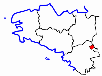 Description: Map for localisazion of cantons of Pays-de-Loire, region in France Source: made by Hervé Tigier in april 2005 from another large map (published in 1990)